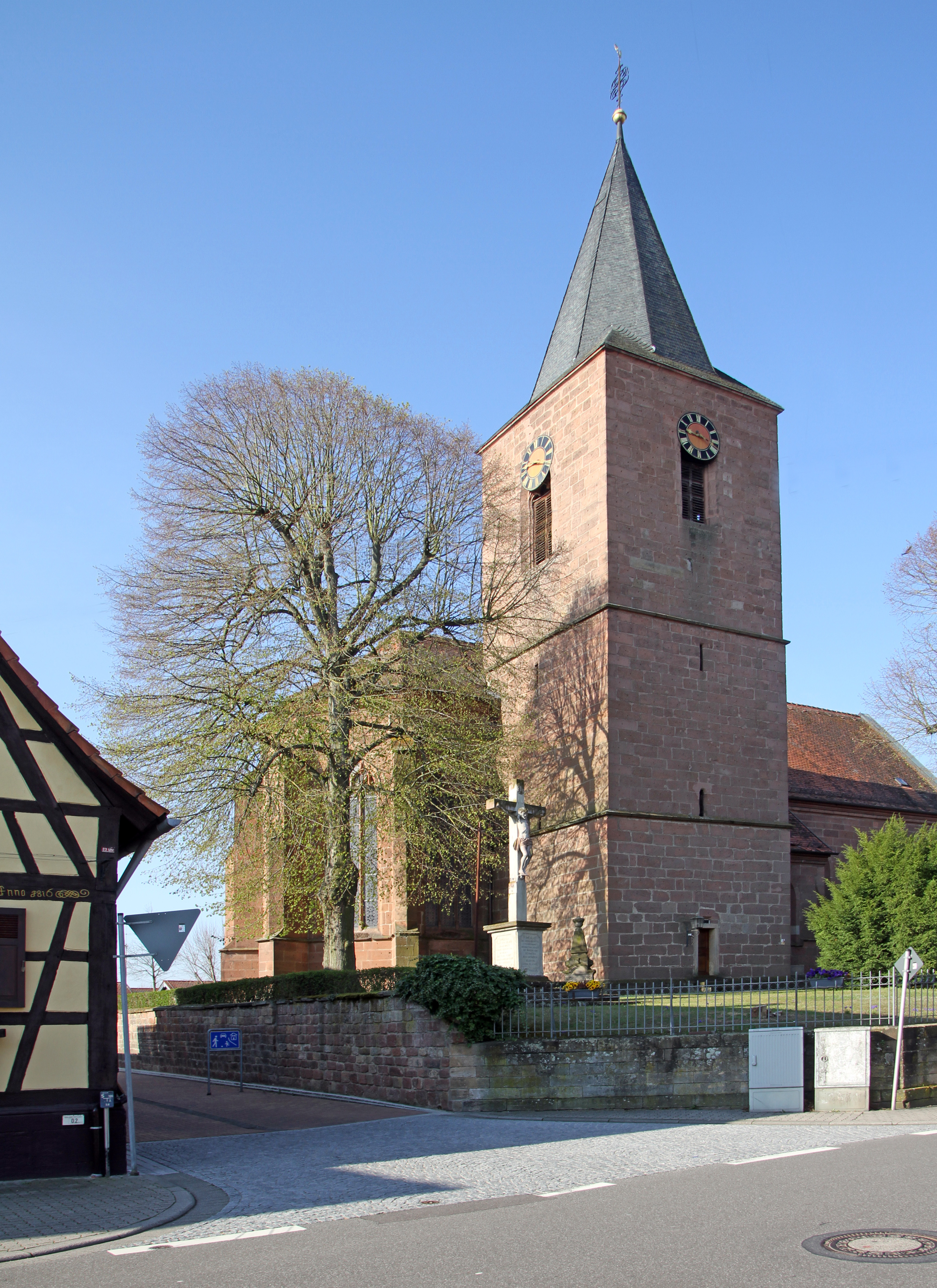 Church of Saint Michael in Rohrbach.